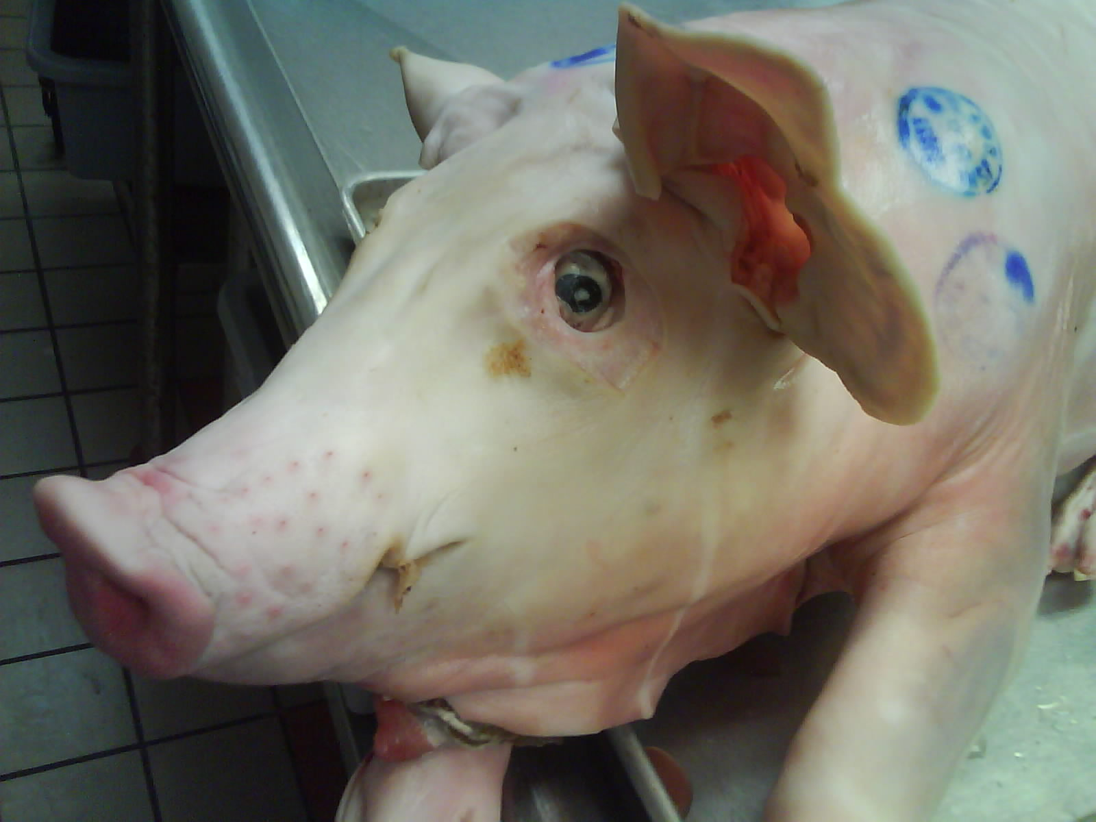 A suckling pig, ready for roasting, in the kitchen of a university cafeteria.